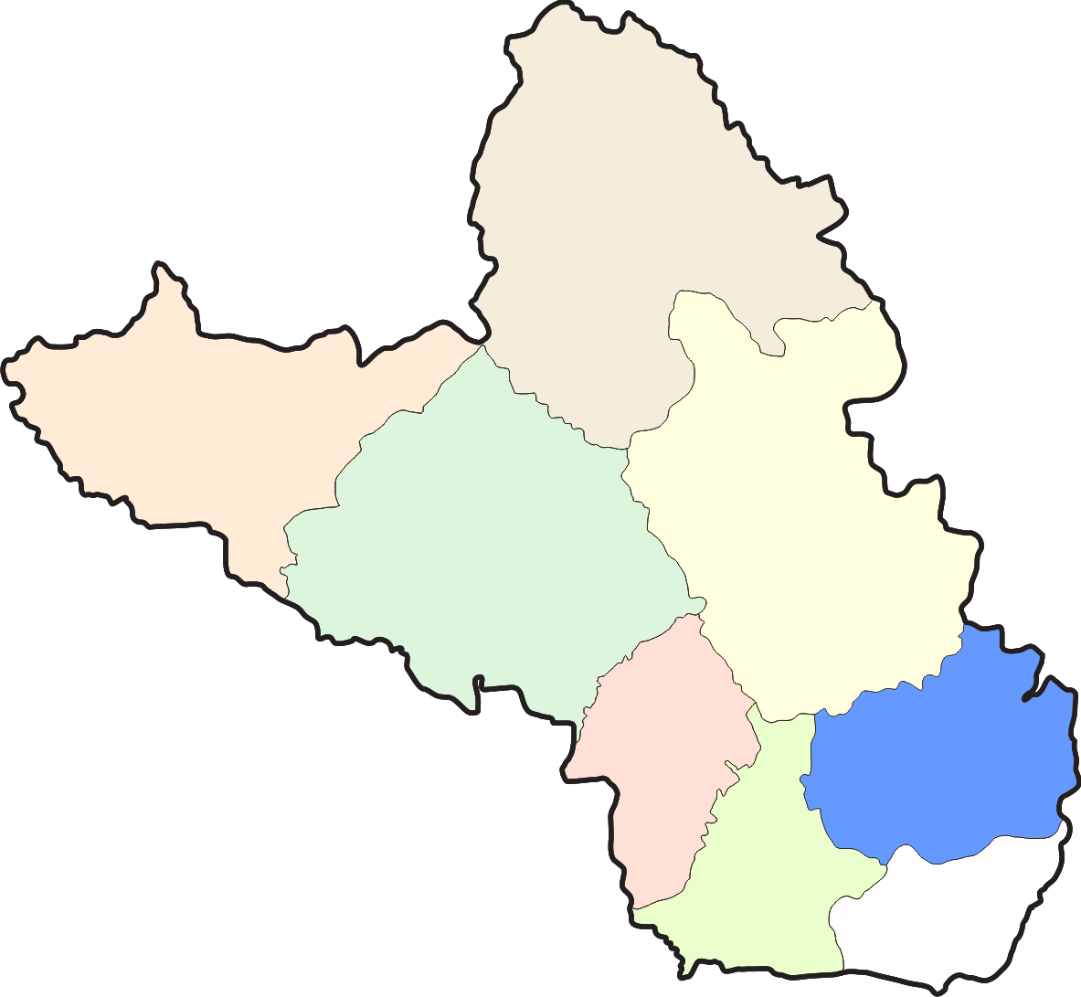 Planned Kézdi Seat